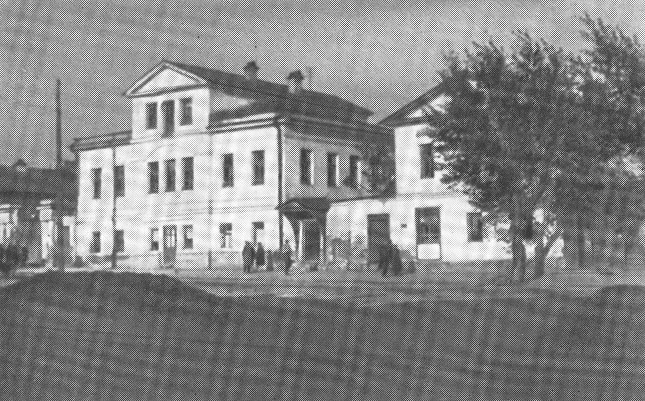 Politician of the USSR. Yakov_Sverdlov (1885-1919)